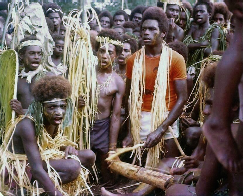 Buka boys performing at a Buin folk festival 1978